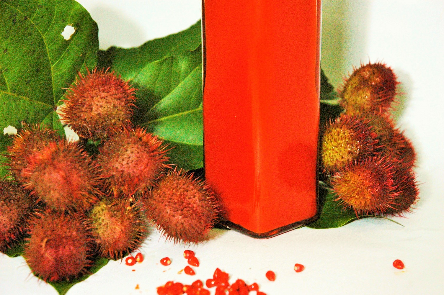 Virgim oil of Urucum